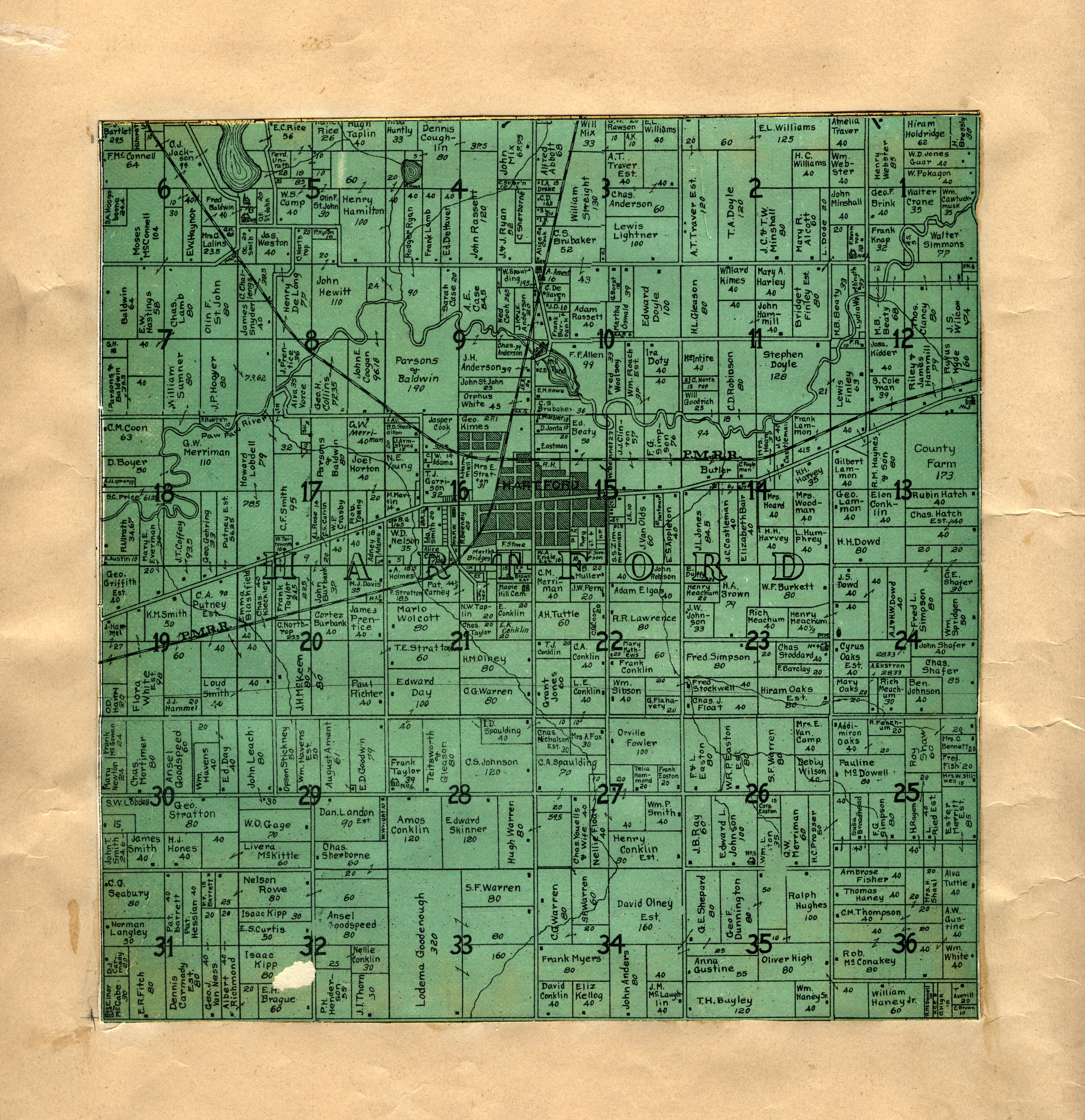 Digital scan of the Hartford Township portion of a larger 1906 map of Van Buren County, Michigan. The county map was cut into township-sized pieces, and the pieces were later found pasted into an 1895 atlas of Van Buren County, now in the collection of the Michigan State University Map Library. Each township map cut from the 1906 county map was pasted onto a blank page opposite the map of the corresponding township in the 1895 county atlas. Shows parcel boundaries and names of property owners, Public Land Survey System township and section numbering, roads, railroads, residences, schools, churches, municipalities, and water features. Print version was cut from map: Orton, M. K. A farm map of Vanburen County, Michigan / compiled from official records and local inspection by W.H. Goss, County Surveyor ; drawn by M.K. Orton. Rockford, Ill. : W.W. Hixson, [1906]. MSU Libraries catalog record